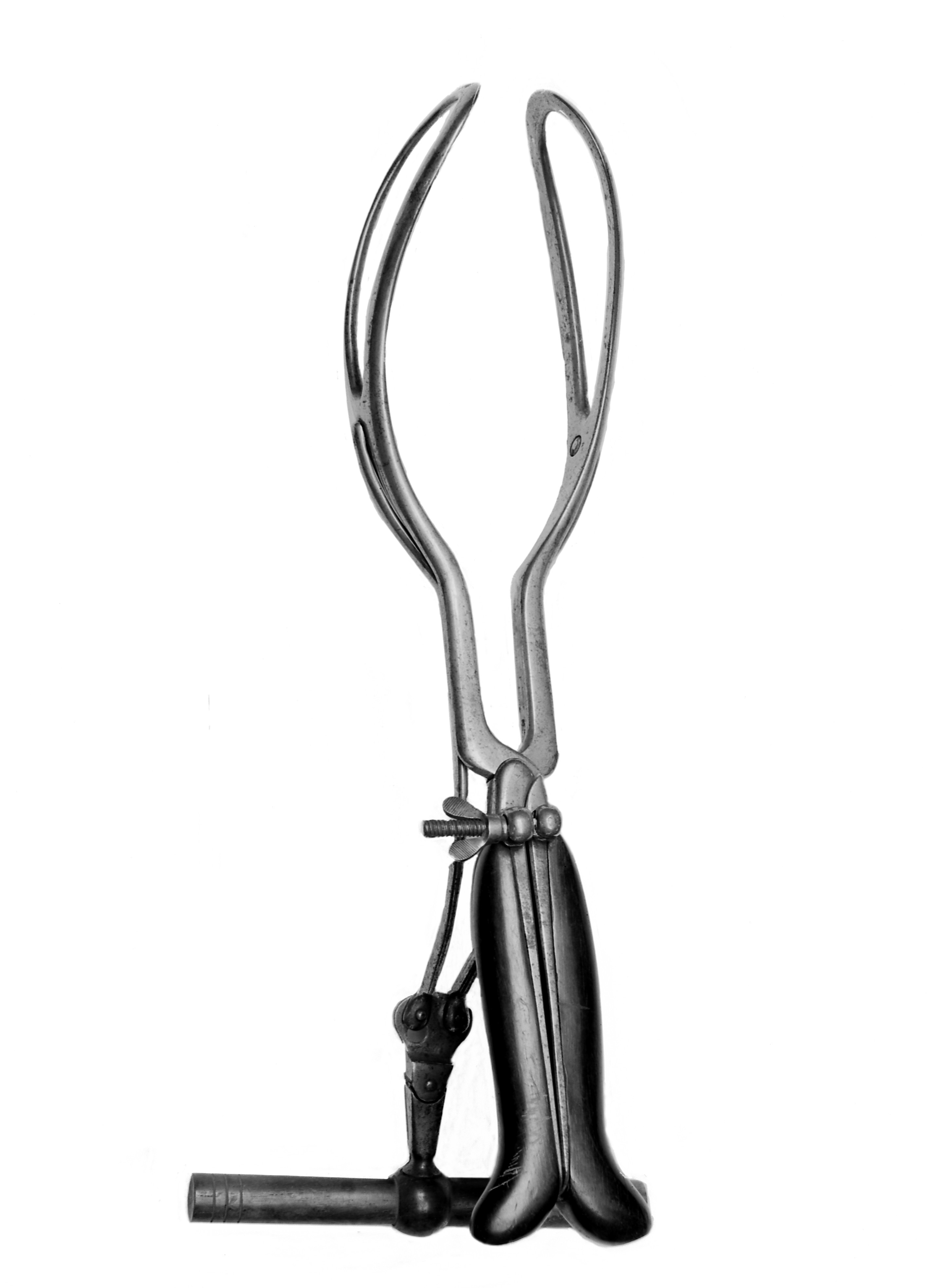 Obstetric forceps, A.R. Simpson's axis traction Wellcome Images Keywords: Midwifery; Obstetrics